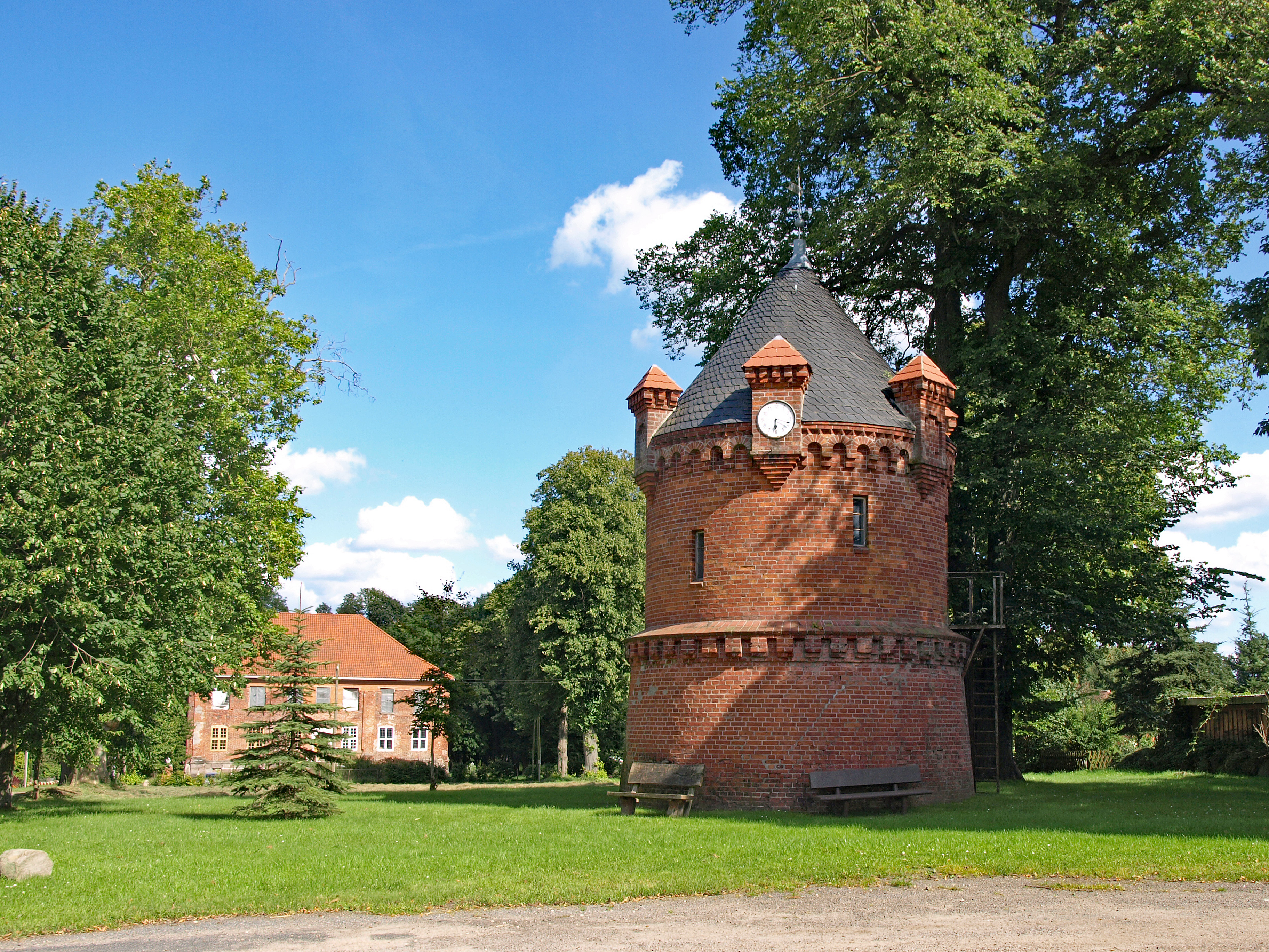 Wasserturm und Gutshaus Goldenbow